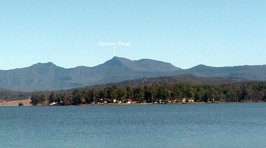 Spicer's Peak in Main Range National Park, South East Queensland viewed from Lake Moogerah